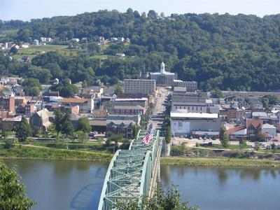 A picture of Kittanning taken from atop a large hill which is also a park. The court house can be seen as one of the most noticeable features.